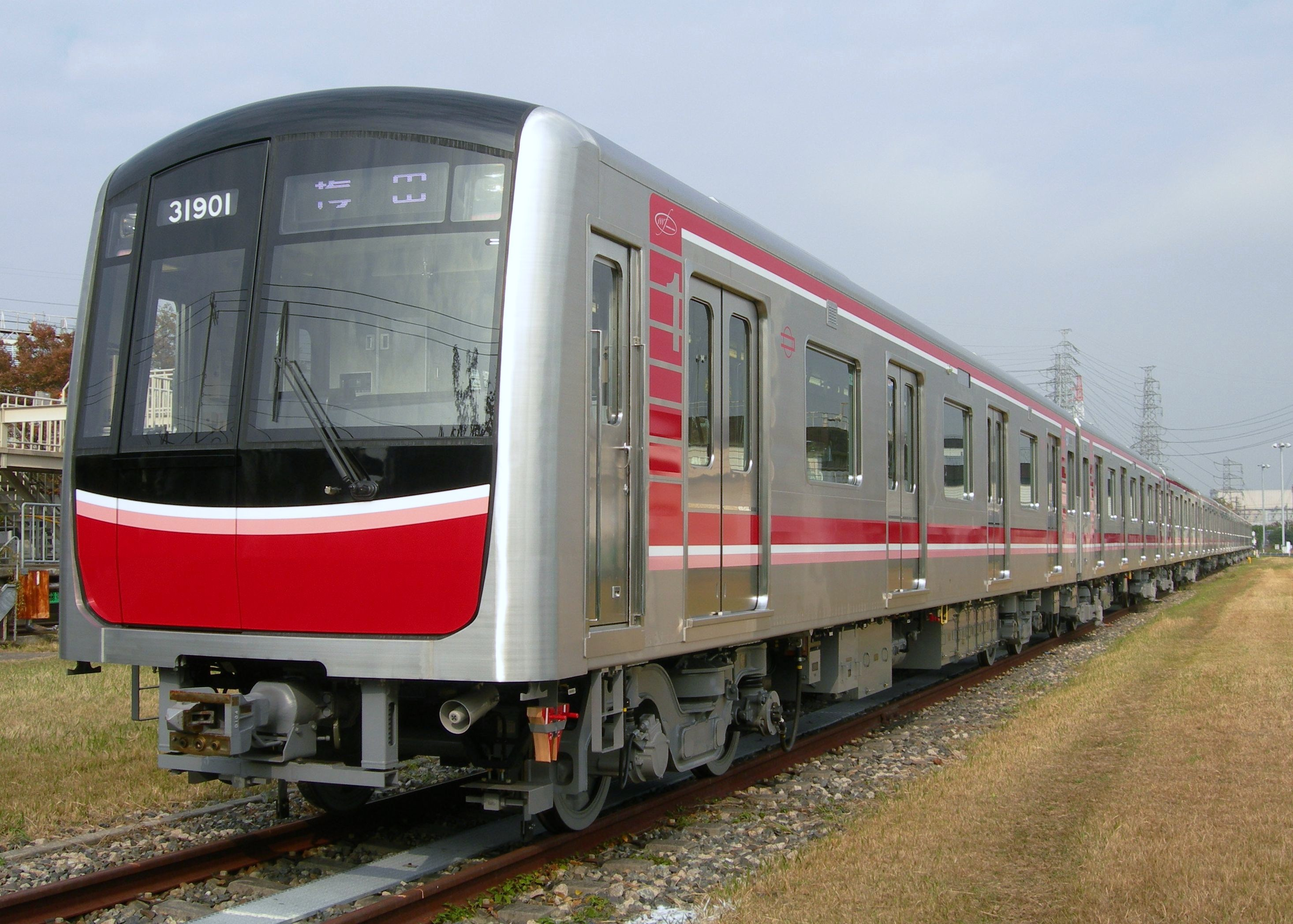 Osaka Municipal Subway Midōsuji Line 30000 series 10-car set 31901 at Midorigi Depot